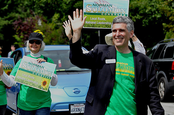 Copyright released by permission of photographer Leon Kunstenaar, via e-mail with the uploader of this image.